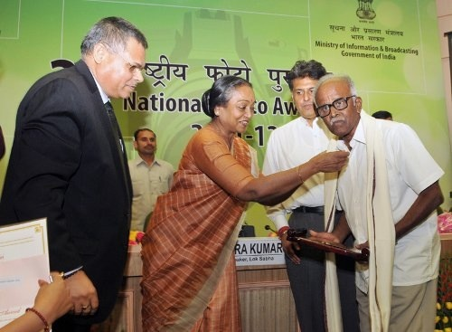 Famous wildlife photographer T.N.A. Perumal, was presented the lifetime achievement awards by Lok Sabha Speaker Meira Kumar, National Photo Awards